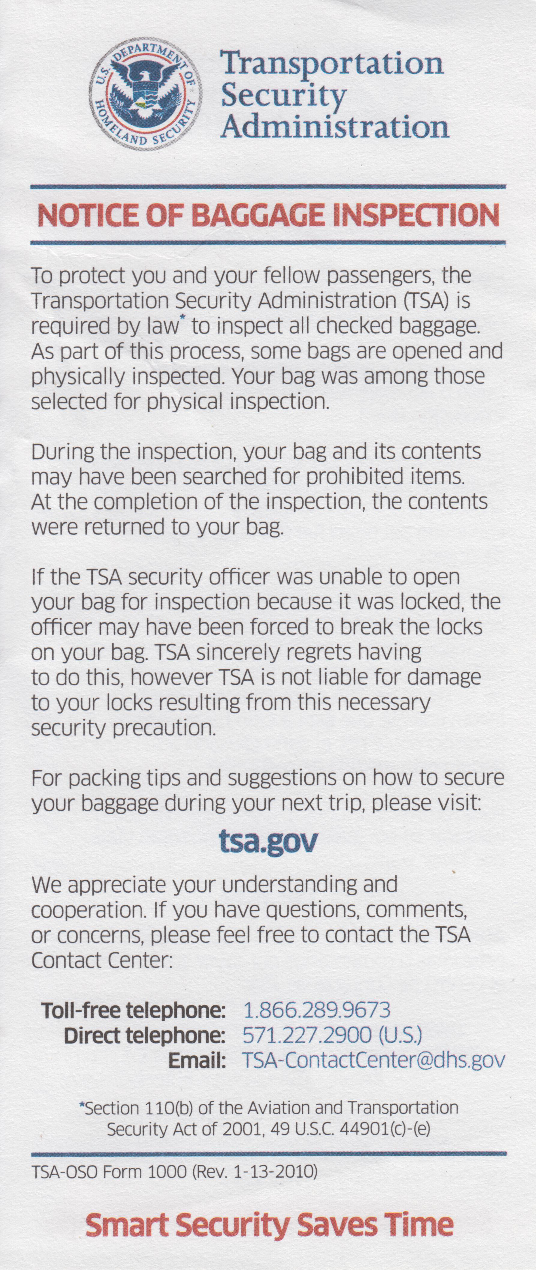 A Transportation Security Administration Notice of Baggage Inspection found inside luggage.